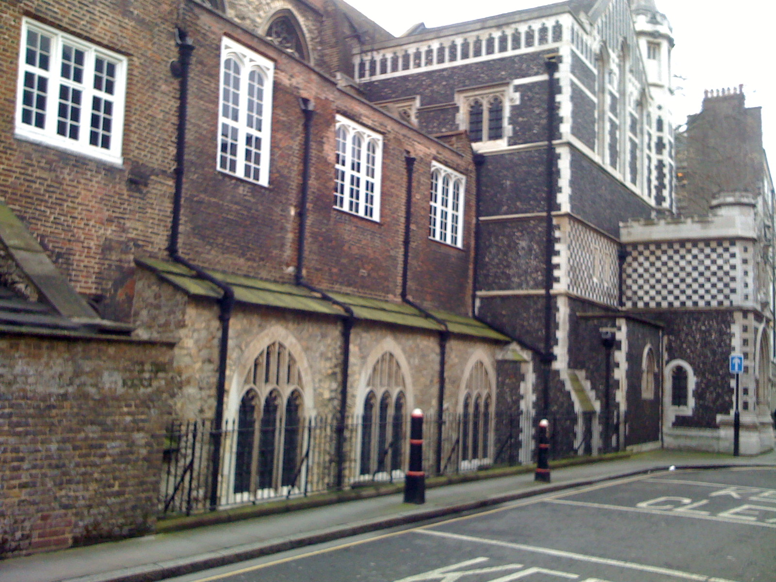 View of the flank of Saint Bartholomew's Church from Middle Street